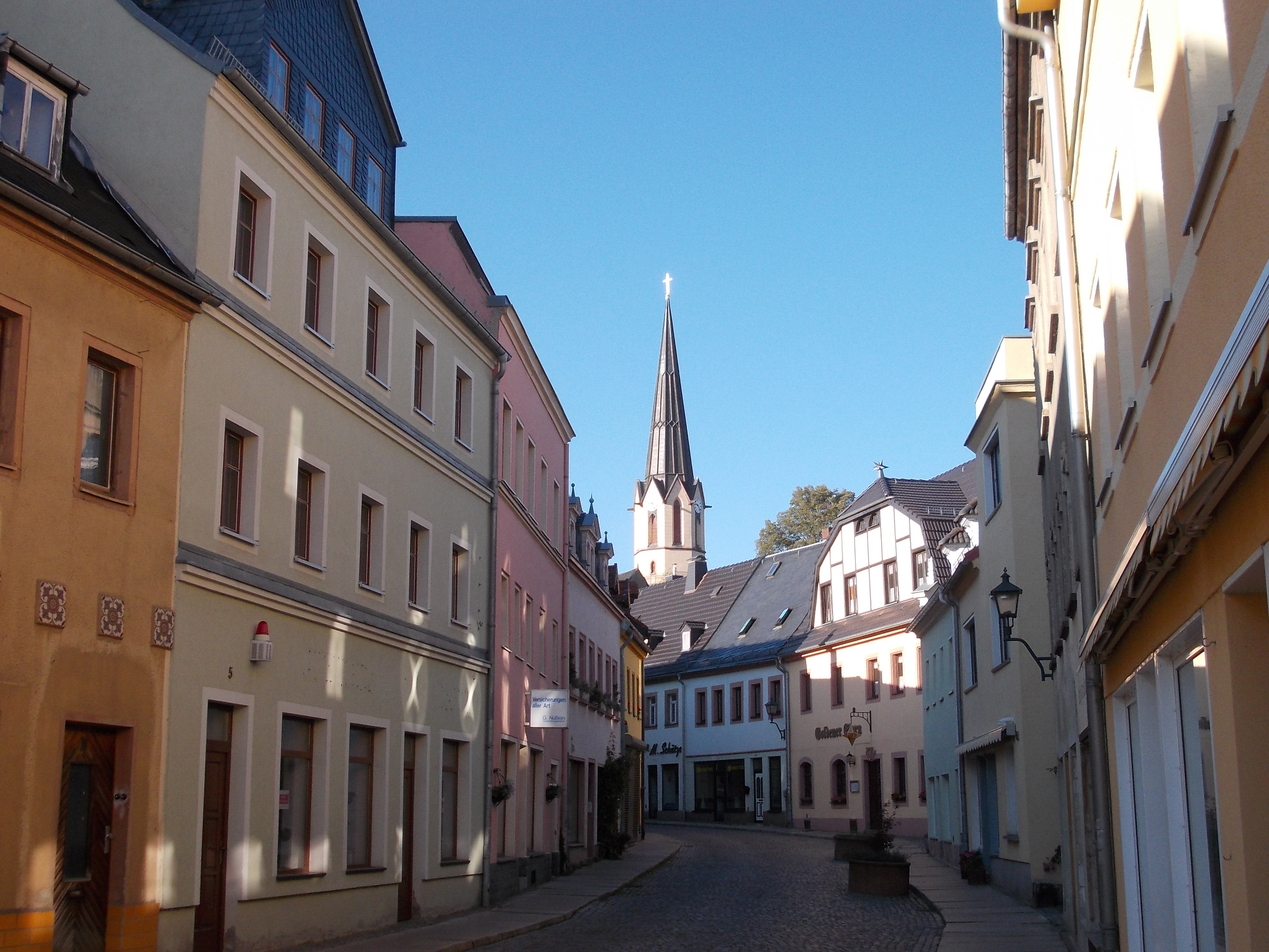 Herrenstrasse in Burgstädt (Mittelsachsen district, Saxony)